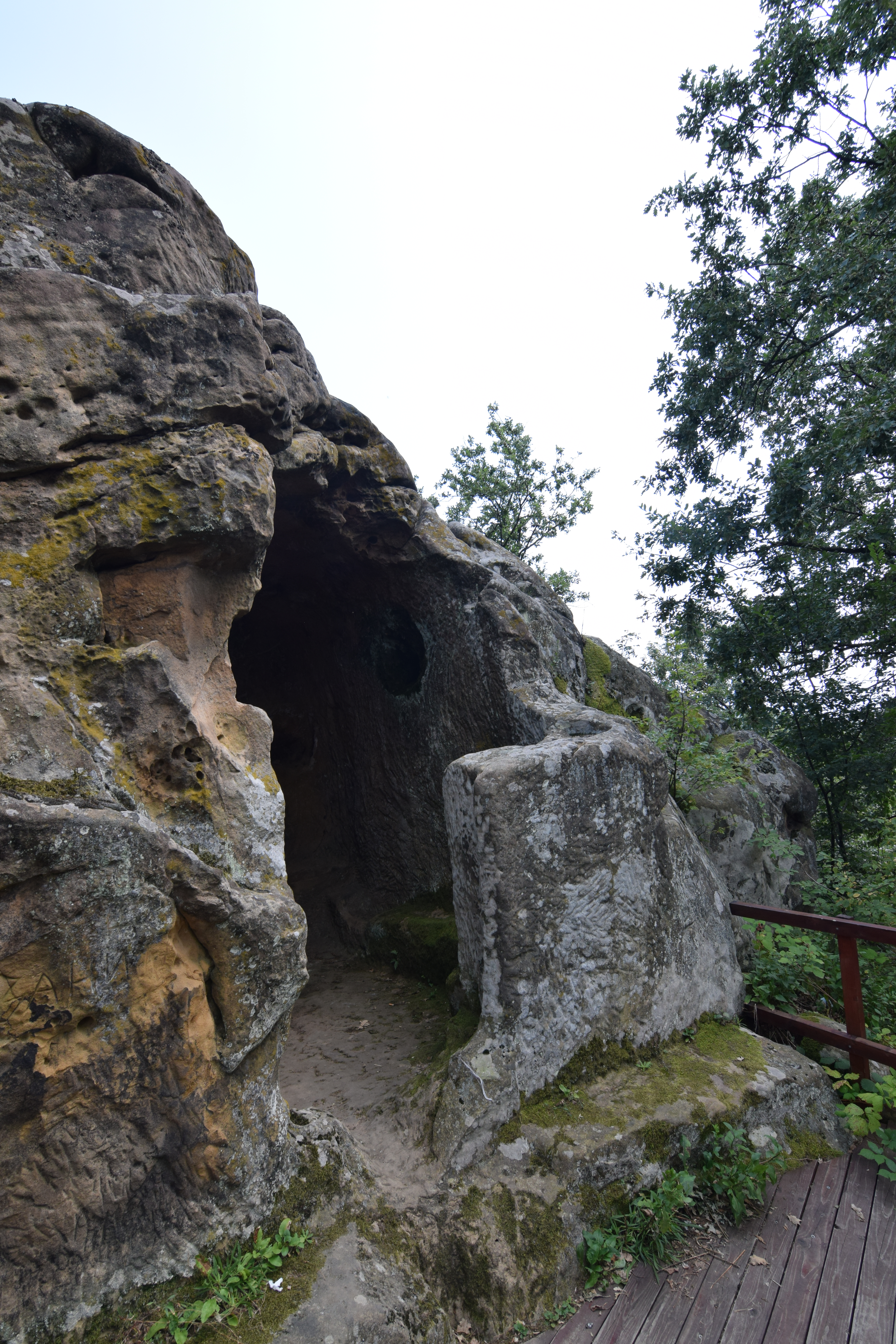 Bozhenishki Urvich is a ruined fortress on the northern slopes of Lakavishki Reed in the western Balkan Mountains at 3 km south of village Bozhenitsa and 20 km from the town of Botevgrad, Bulgaria. It is situated at 750 m a.s.l.